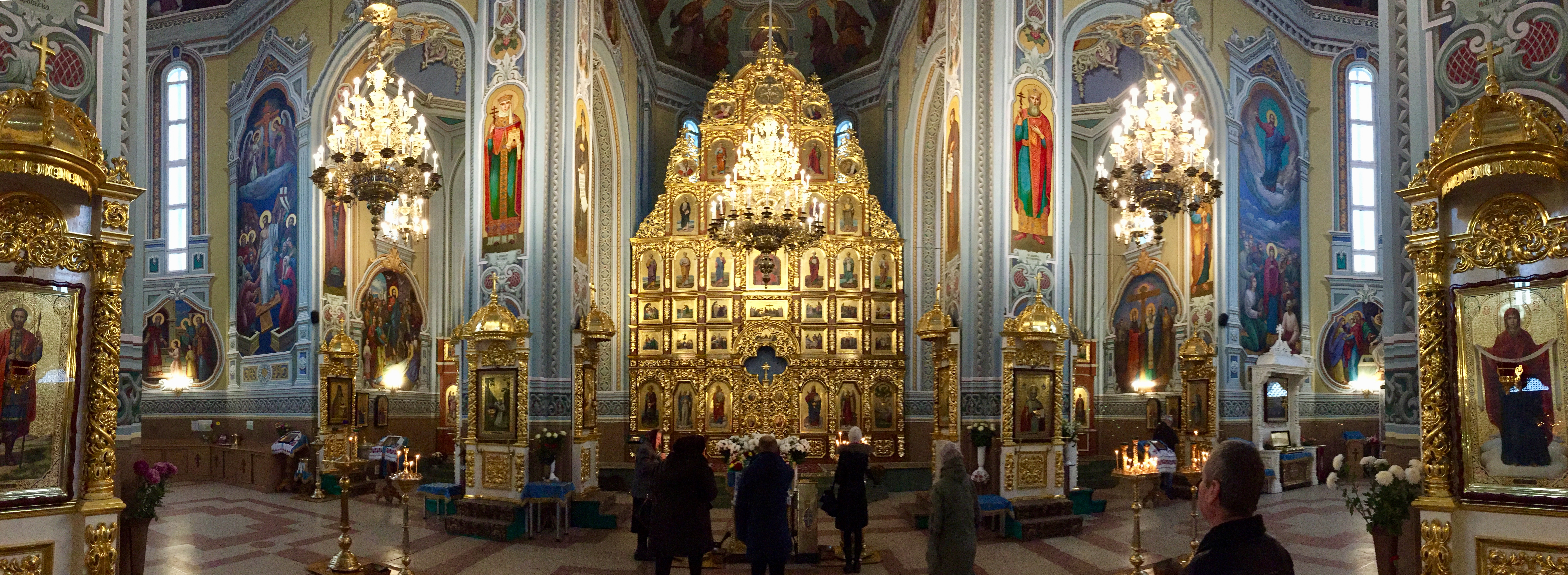 Orthodox Church in Ukraine